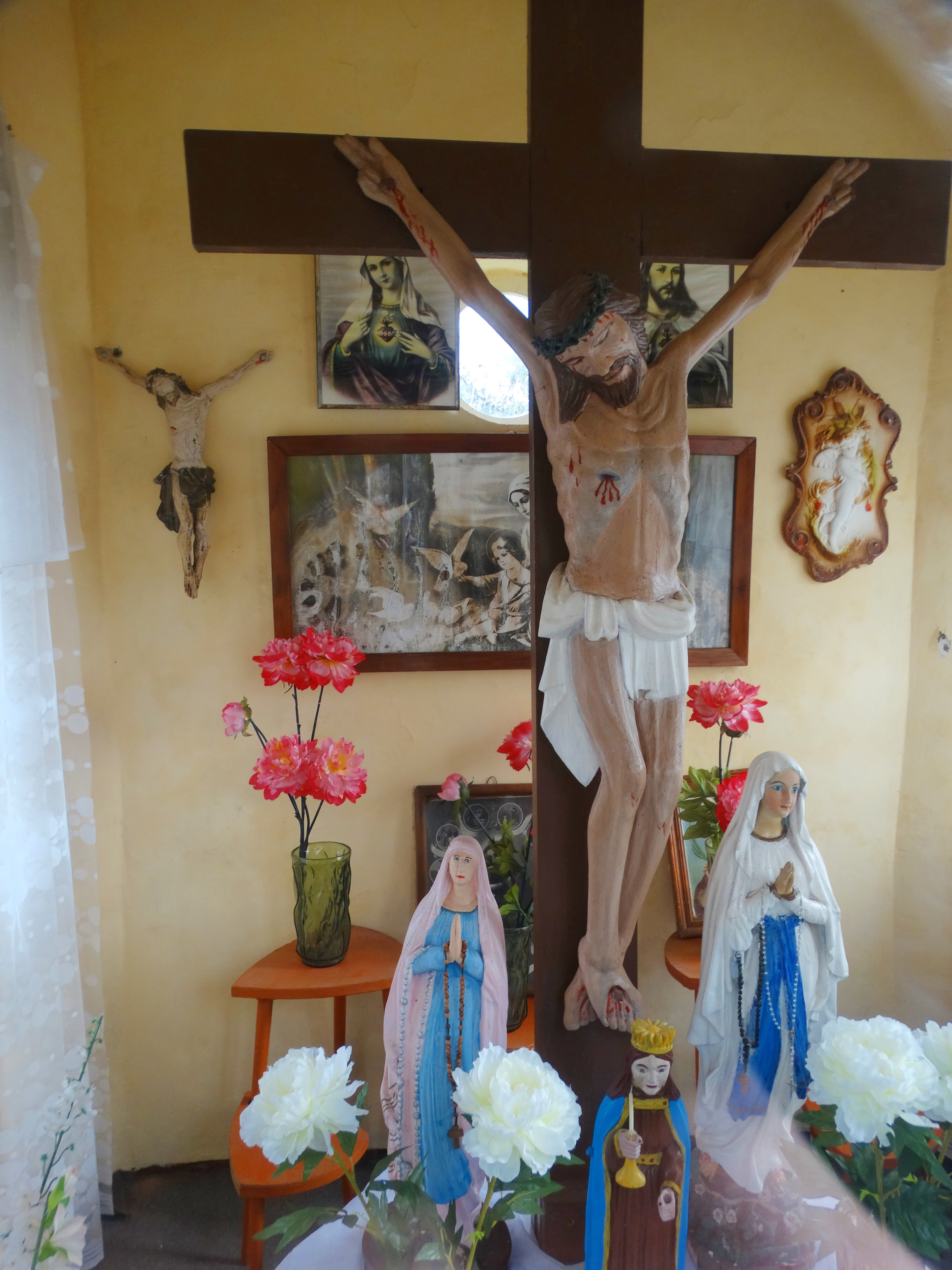 Chapel on Kretinga Street,interior, Darbėnai, Lithuania